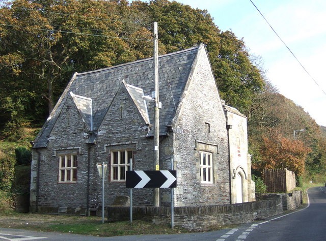 College/courthouse/dwelling A plaque set in the wall of this roadside building in the small village of Felindre Farchog bears the words LLYS-DY ARGLWYDDI CEMMAES (Courthouse of the lords of Cemmaes) and the dates 1626, 1852 and 2000, the last being the year when it was refurbished as a private dwelling after a period of lying empty. The original structure is said to have been built by the 17th century lord of Cemmaes, Sir George Owen, who lived nearby, and may have been intended as a school; in 1852 it was rebuilt in Tudor Gothic style as courthouse for the barony of Cemmaes. The village itself was once known as College but its Welsh name means 'knight's mill place'.